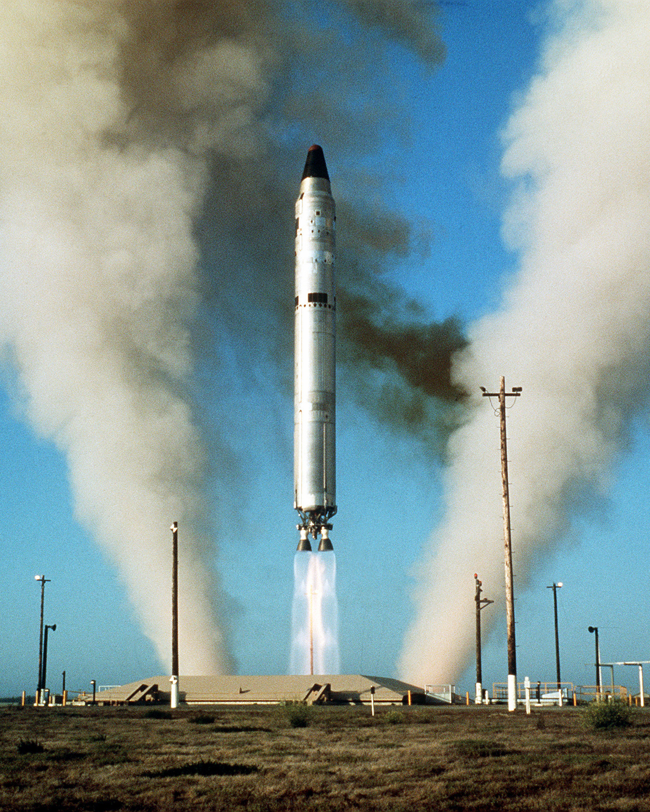 An LGM-25C Titan II missile is launched at Vandenberg Air Force Base, California (USA), in 1975.